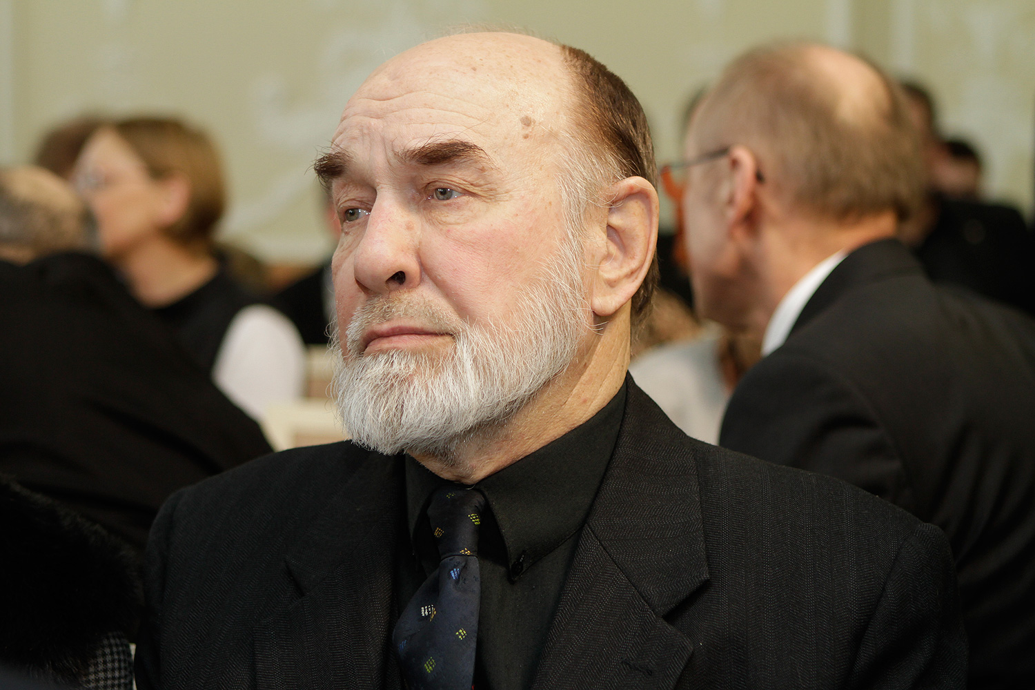 Actor Antanas Šurna